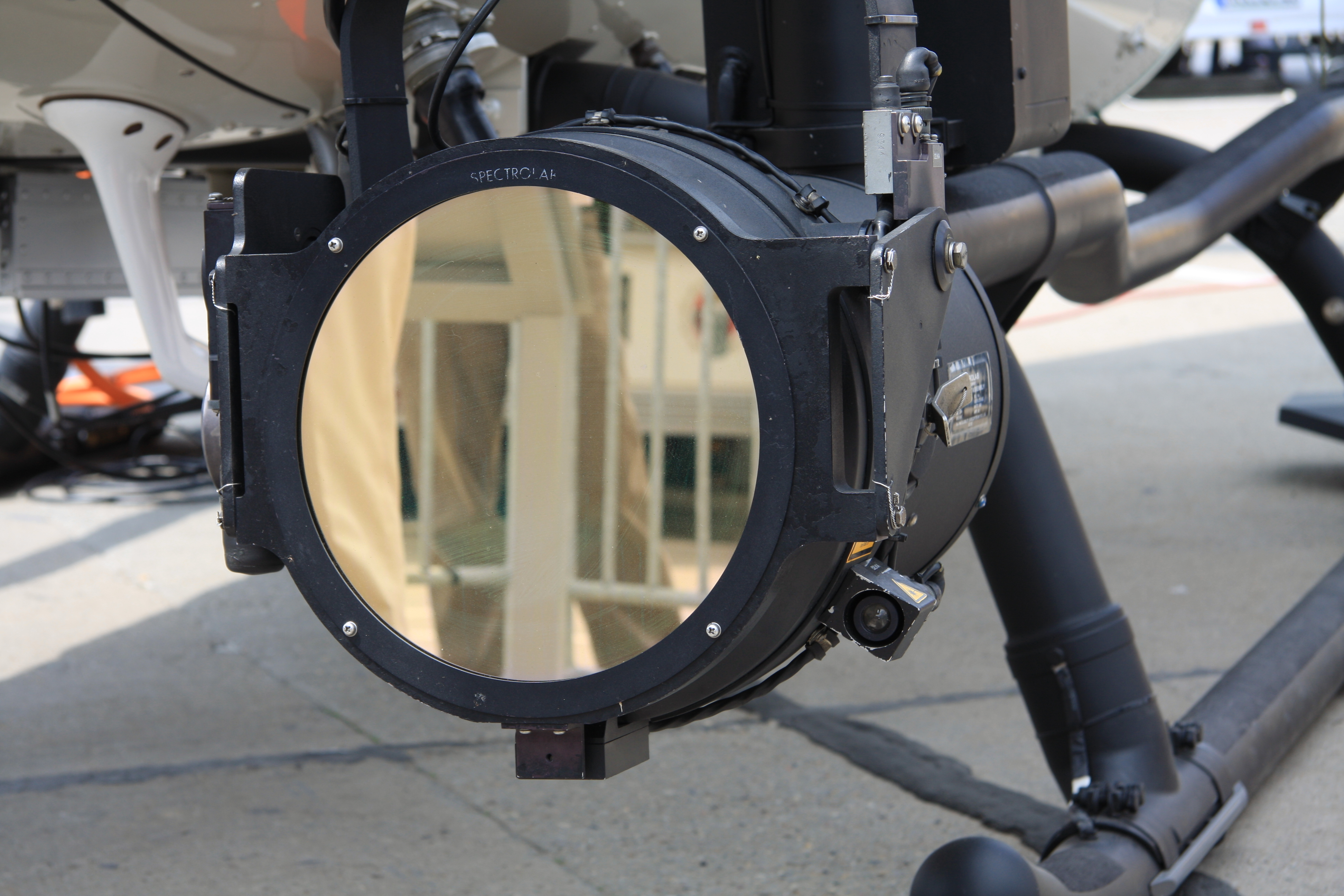 The search light SX16 Nightsun on an EC 135 (picture taken during the International Air and Space Exhbition)